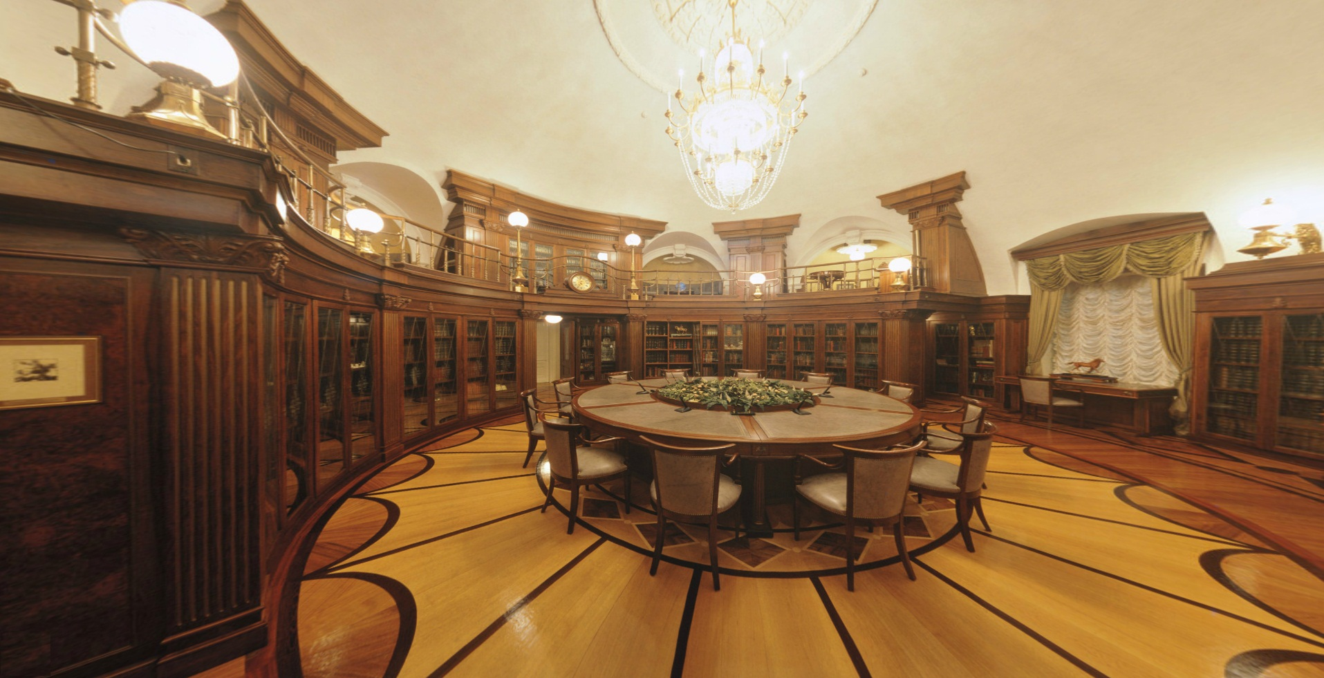 Presidential library. Senate Palace Moscow Kremlin